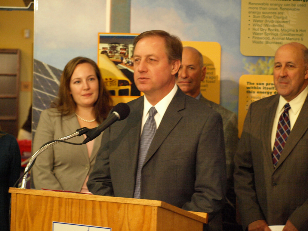 Madison Mayor Dave Cieslewicz